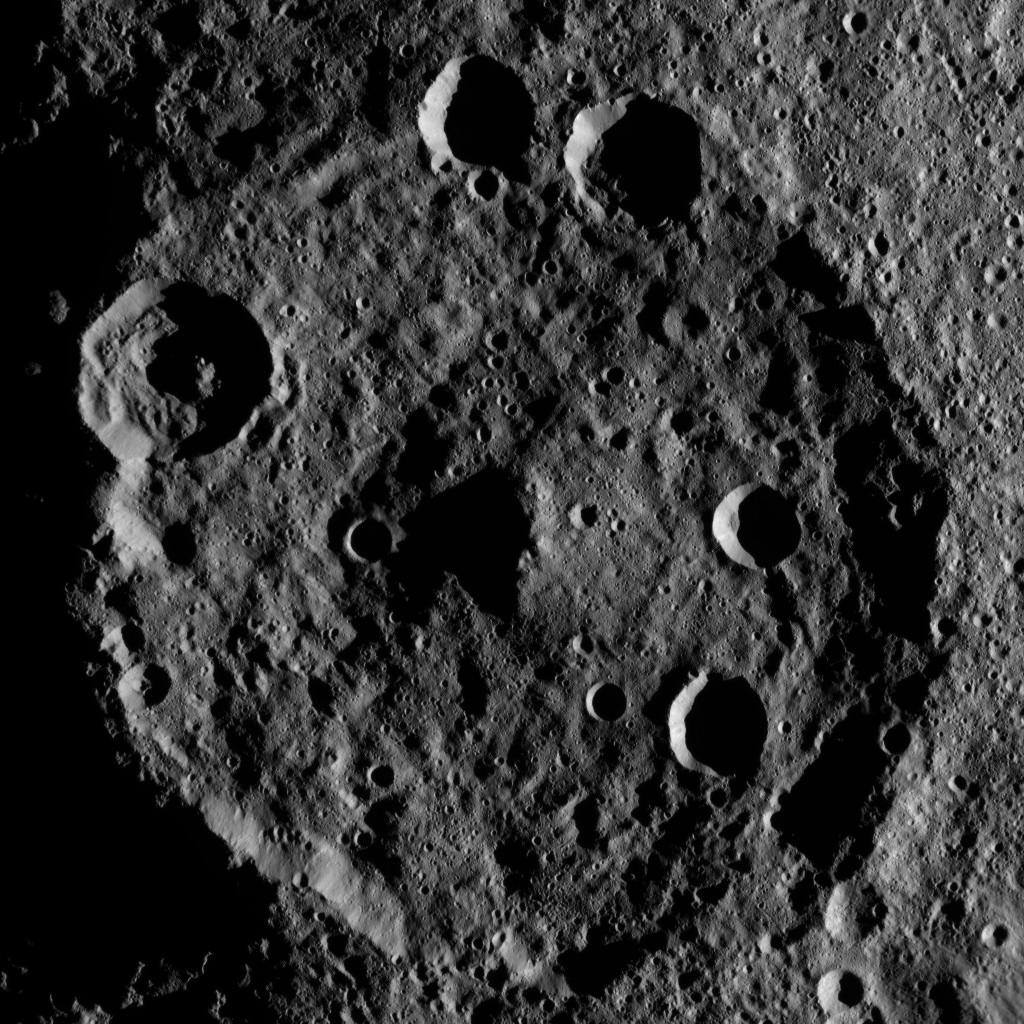 Zadeni Crater on Ceres is featured in this image from NASA's Dawn spacecraft. This large southern-hemisphere crater is 79.5 miles (128 kilometers) in diameter and is named for an ancient Georgian god of bountiful harvest. Dawn took this image on Oct. 19 from its second extended-mission science orbit (XMO2), at a distance of about 920 miles (1,480 kilometers) above the surface. The image resolution is about 460 feet (140 meters) per pixel. Dawn's mission is managed by JPL for NASA's Science Mission Directorate in Washington. Dawn is a project of the directorate's Discovery Program, managed by NASA's Marshall Space Flight Center in Huntsville, Alabama. UCLA is responsible for overall Dawn mission science. Orbital ATK, Inc., in Dulles, Virginia, designed and built the spacecraft. The German Aerospace Center, the Max Planck Institute for Solar System Research, the Italian Space Agency and the Italian National Astrophysical Institute are international partners on the mission team. For a complete list of mission participants, For more information about the Dawn mission, visit